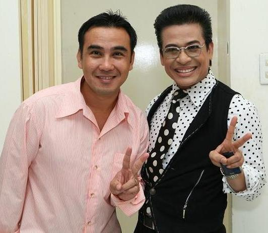 My picture